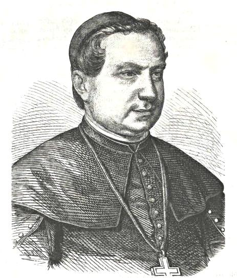 Portrait of the bishop Ferenc Szaniszló